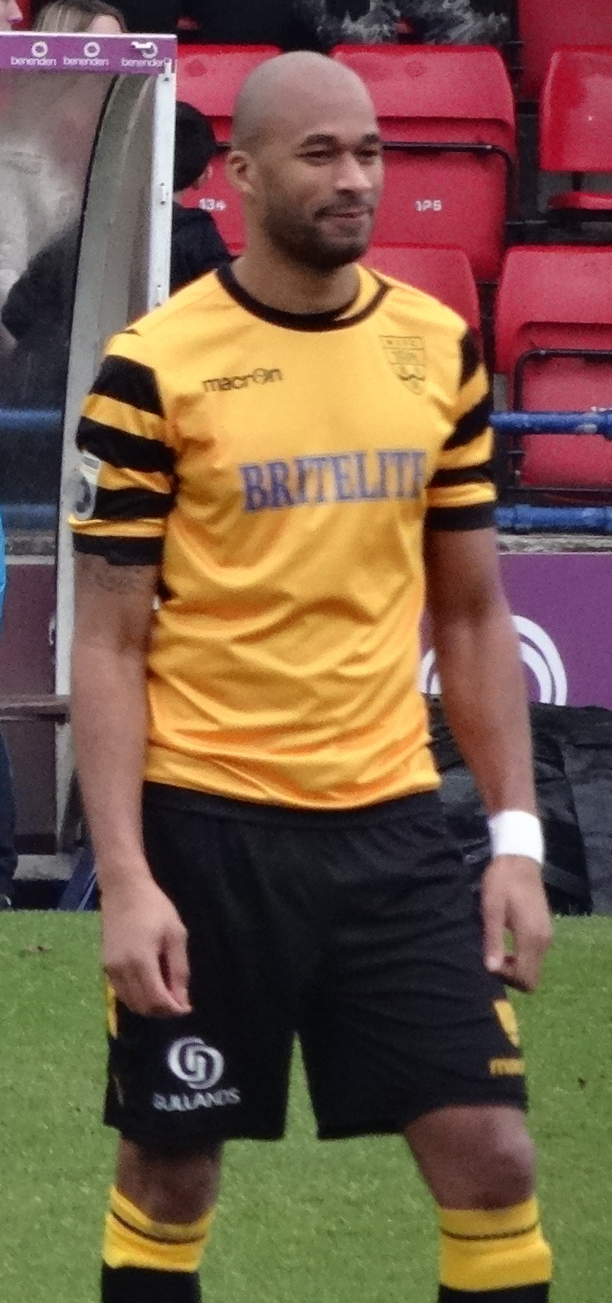 Delano Sam-Yorke playing for Maidstone United against York City at Bootham Crescent, York on 11 February 2017